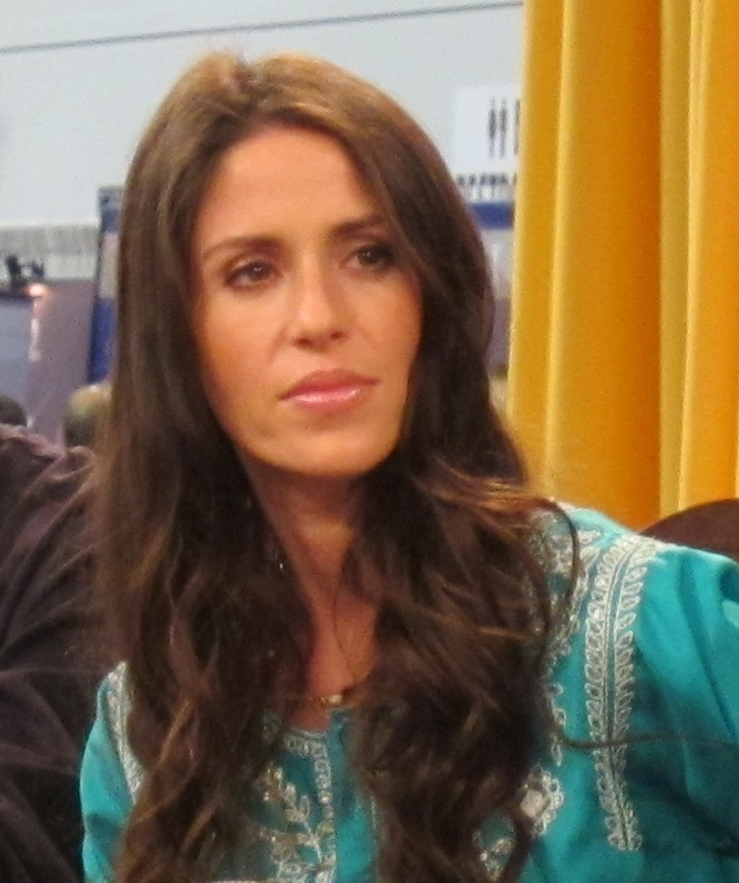 Soleil Moon Frye from Punky Brewster (crop from original)